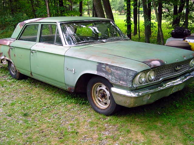 A Ford 300 that has never been in a garage.